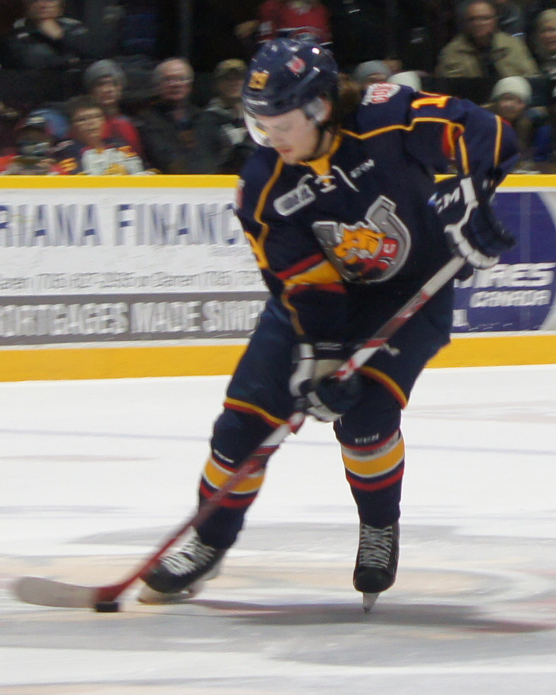 Rasmus Andersson playing for the Barrie Colts against the Kingston Frontenacs, January 23, 2016.